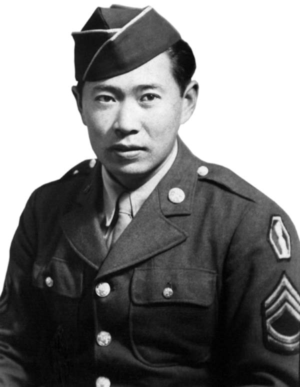 United States Army Technical Sergeant Ted T. Tanouye was awarded the Medal of Honor for his actions during World War II